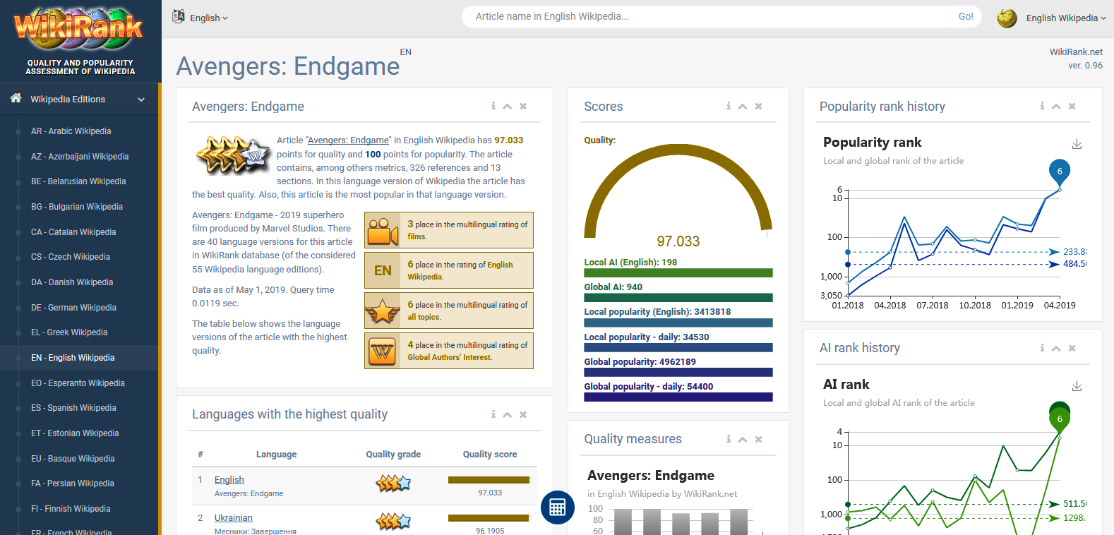 WikiRank